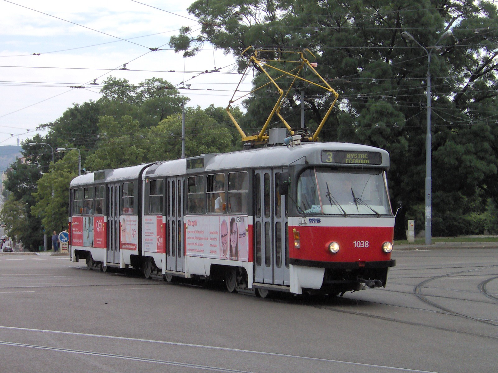 Tatra K2T tram in Brno